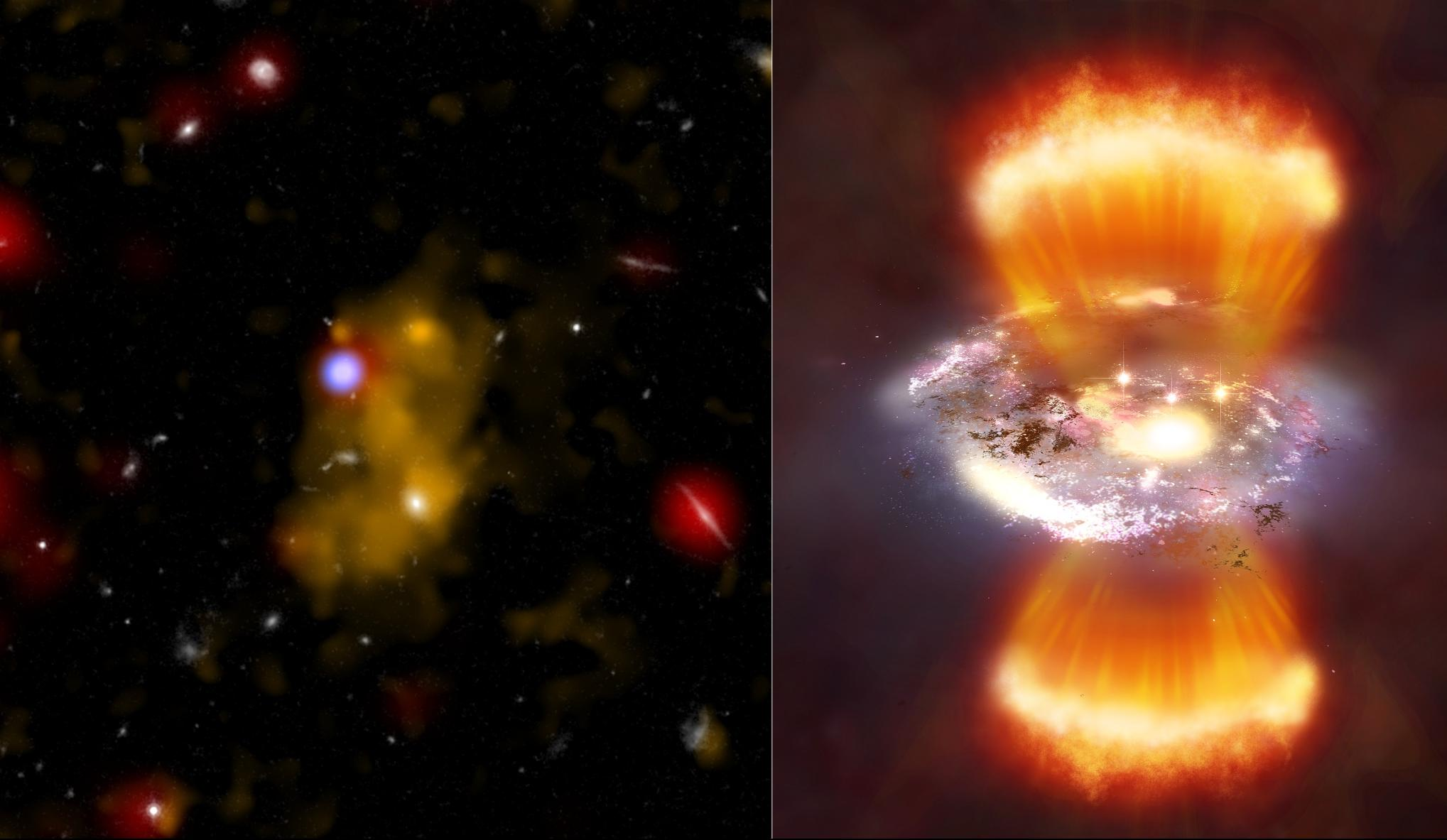 The composite image on the left shows one of the largest blobs observed in this study. Glowing hydrogen gas in the blob is shown by a Lyman-alpha optical image (coloured yellow). A galaxy located in the blob is visible in a broadband optical image (white) and an infra-red image (red). The blue (x-ray) shows evidence for a growing super massive black hole in the centre of the galaxy. Radiation and outflows from this active black hole are powerful enough to light up and heat the gas in the blob. Radiation and winds from rapid star formation occurring in the galaxy is believed to have similar effects. Clear evidence for four other active black holes in blobs is also seen. The artist's representation on the right shows what one of the galaxies inside a blob might look like if viewed at a relatively close distance. A two-sided outflow powered by the super massive black hole buried inside the middle of the galaxy is shown in bright yellow, above and below the spiral arms of the galaxy. This outflow illuminates and heats gas surrounding the galaxy. Radiation from regions close to the black hole will also play a significant role in lighting up and heating the blob. Stars are forming at a rapid rate in this galaxy, and young stars are being destroyed in supernova explosions. The three bright stars above the central bulge of the galaxy are examples of such supernovas.